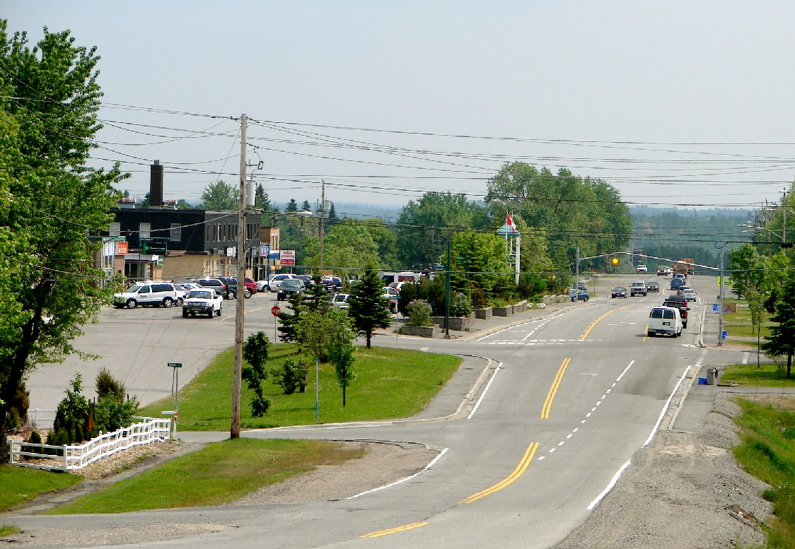 Lively (Greater Sudbury), Ontario, Canada